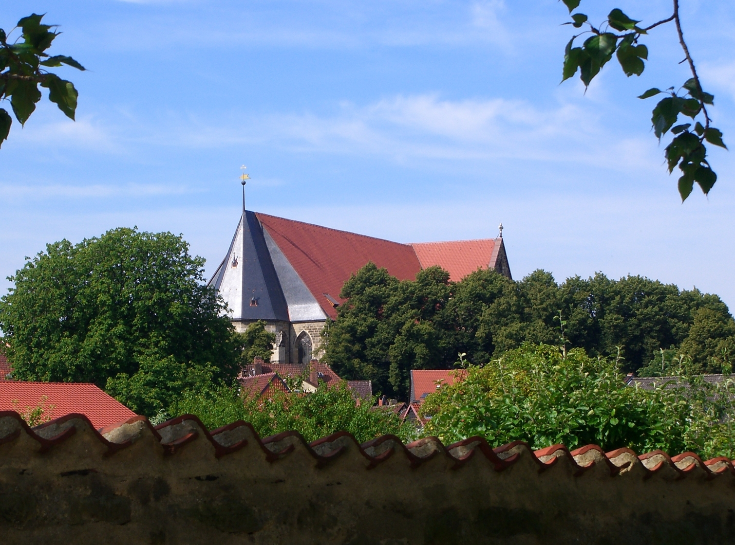 Evangelical-lutheran church "Saint Stephen" (St. Stephani) in Helmstedt.